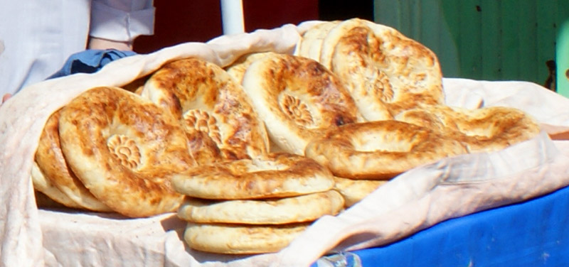 Lepyoshkas / Obi non.